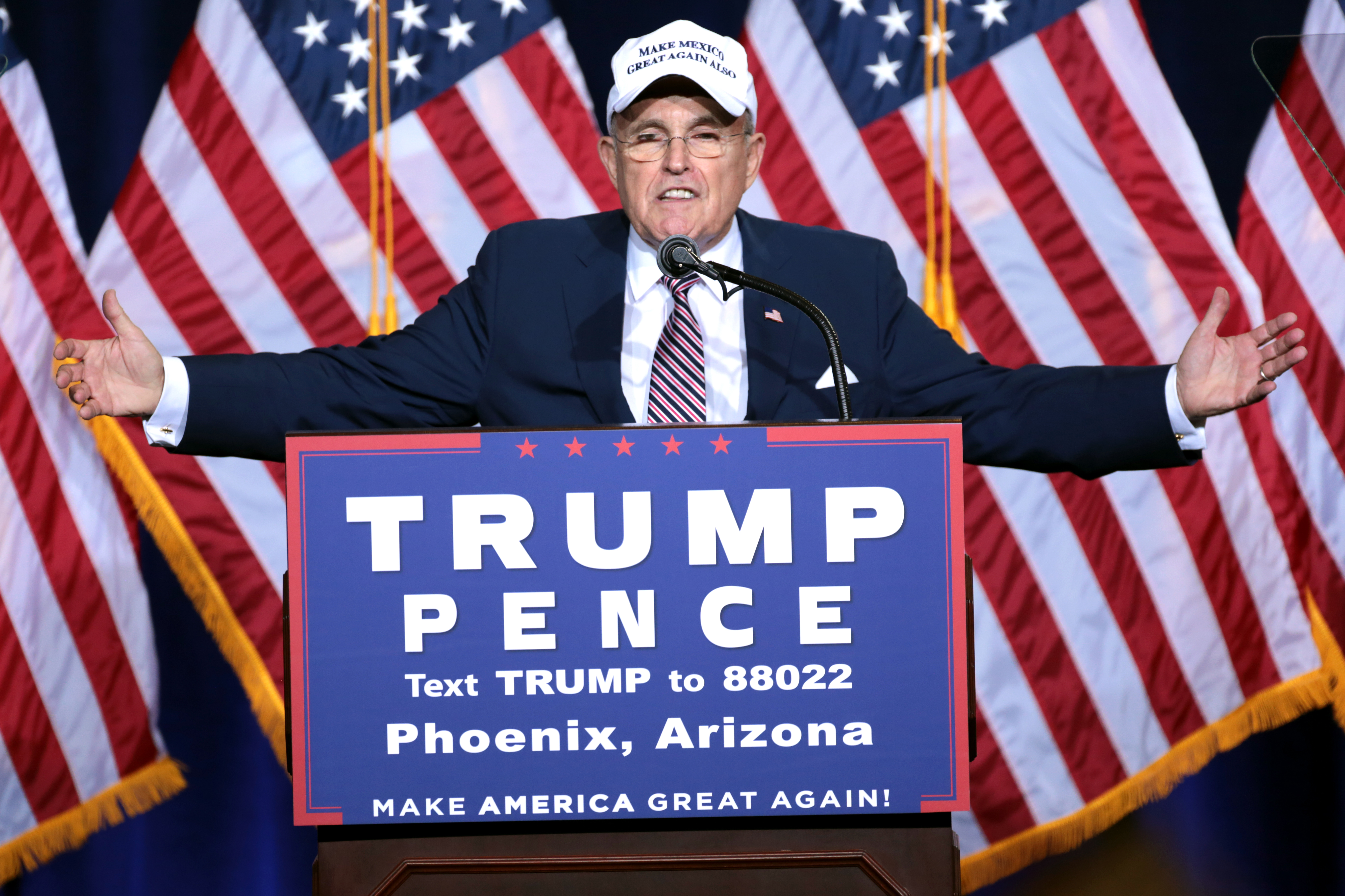 Former Mayor Rudy Giuliani of New York City speaking to supporters at an immigration policy speech hosted by Donald Trump at the Phoenix Convention Center in Phoenix, Arizona.